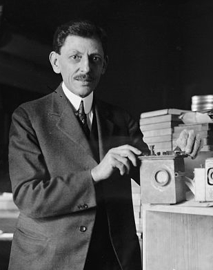 American malacologist Paul Bartsch (1871-1960) with his undersea camera.